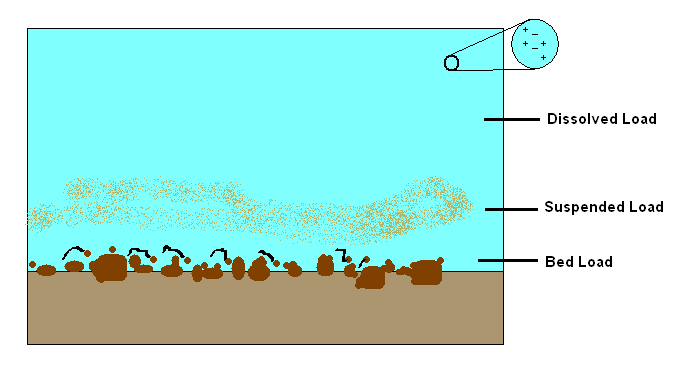 Stream cross section showing stream load